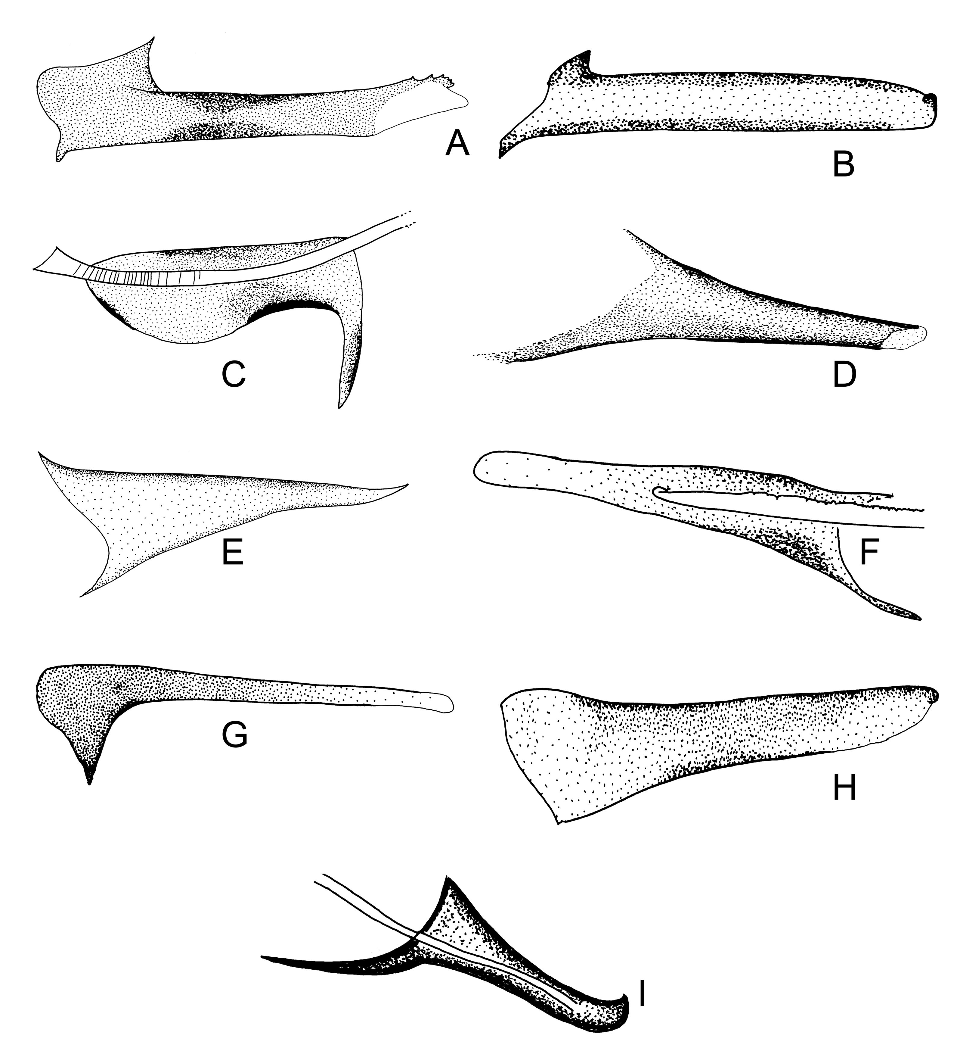 Figure 28 of paper Parameral sheath of Phlebotominae. (A) With a transparent inferior top: Phlebotomus perfiliewi; (B) rounded with a knob at the top: Idiophlebotomus nicolegerae; (C) wide and short: Chinius eunicegalatiae; (D) with transparent top: Phlebotomus (Euphlebotomus) barguesae; (E) pointed: Phlebotomus (Paraphlebotomus) chabaudi; (F) rounded at the top: Sergentomyia (Vattieromyia) anka; (G) drumstick-like: Phlebotomus (Larroussius) major; (H) finger-like: Phlebotomus (Madaphlebotomus) vaomalalae; (I) with hooked top: Phlebotomus (Paraphlebotomus) mongolensis.